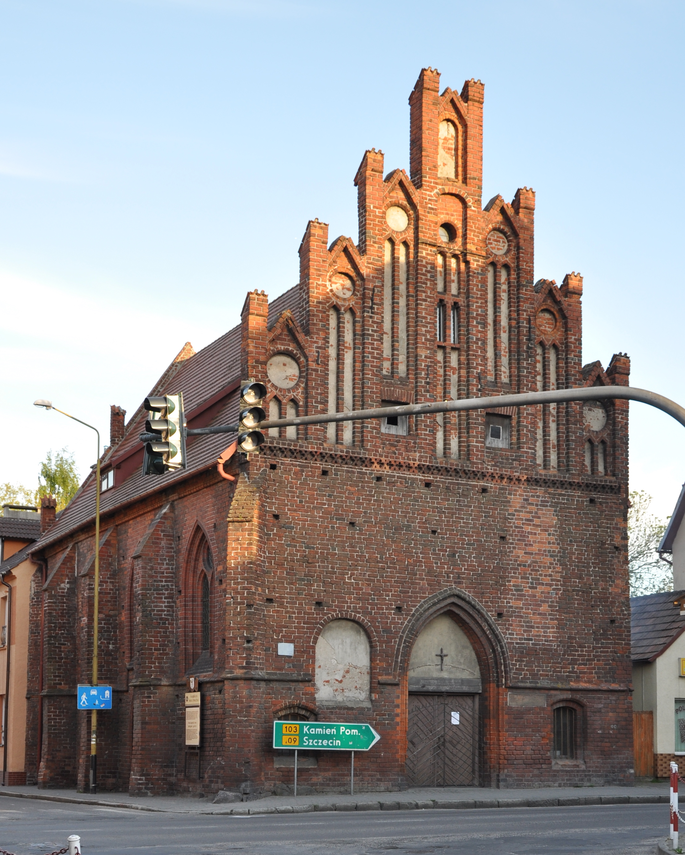 Holy Spirit Chapel (Holy Spirit Orthodox Church) in Trzebiatów, Poland